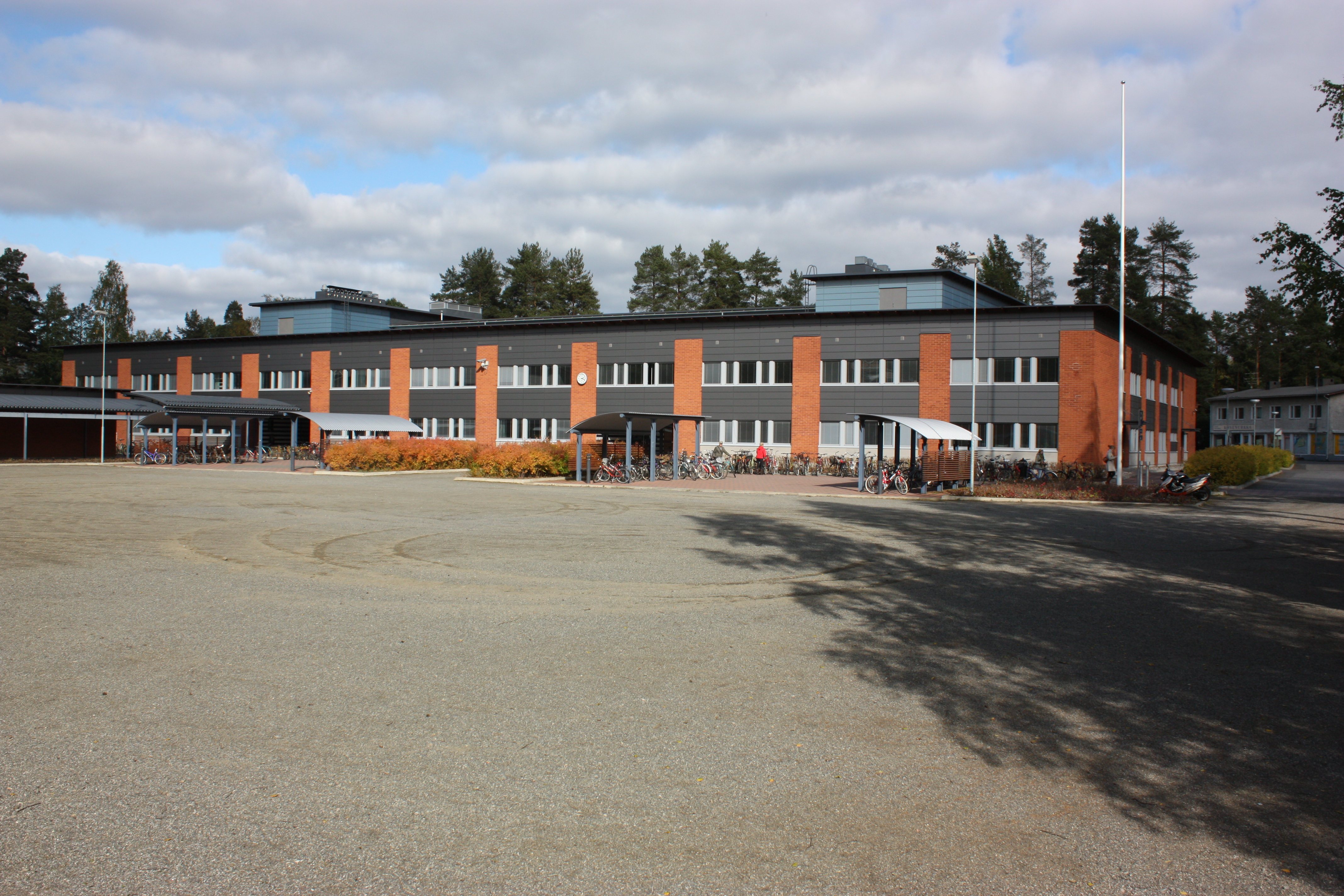 Joensuu university's teachers training school.